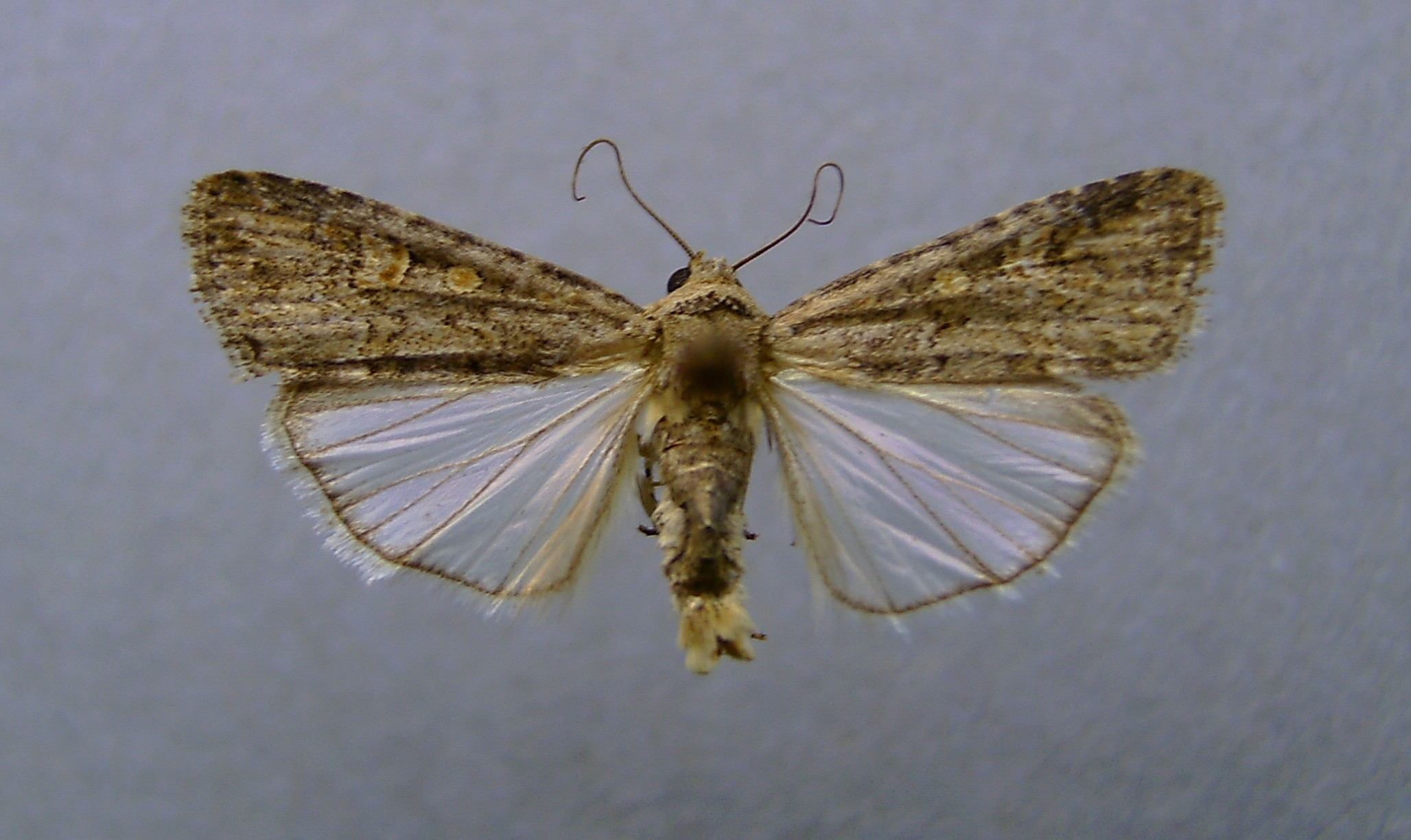 Spodoptera exigua, Pack (Styria), Austria